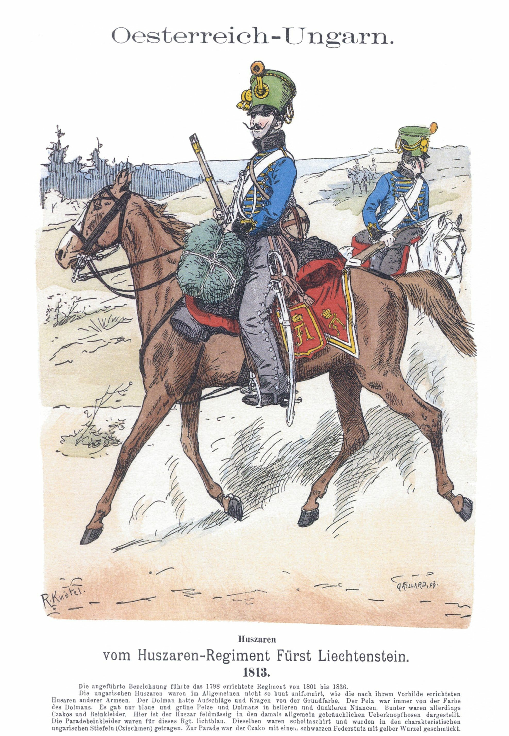 Österreich-Ungarn. Husaren-Regiment Fürst Liechtenstein. 1813